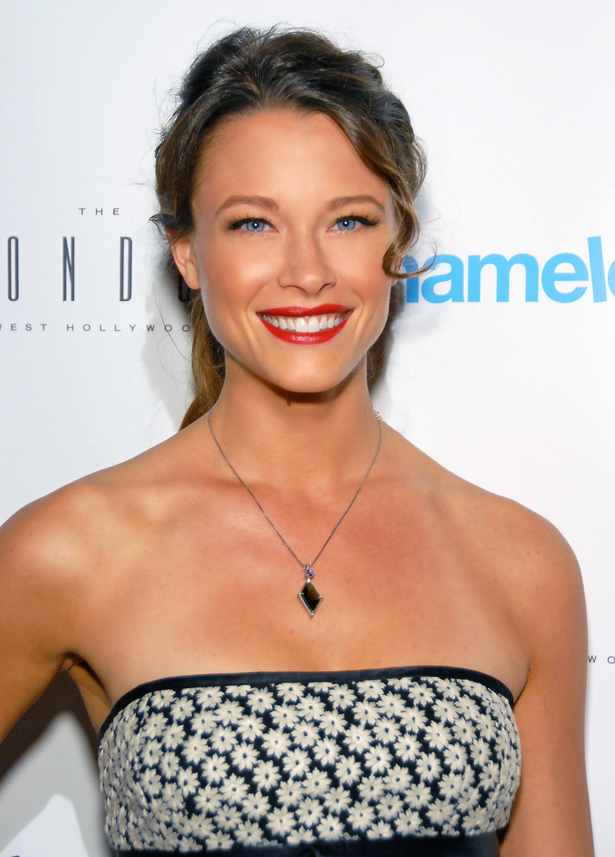 Scottie Thompson, West Hollywood, CA on September 9, 2011 - Photo by Glenn Francis of